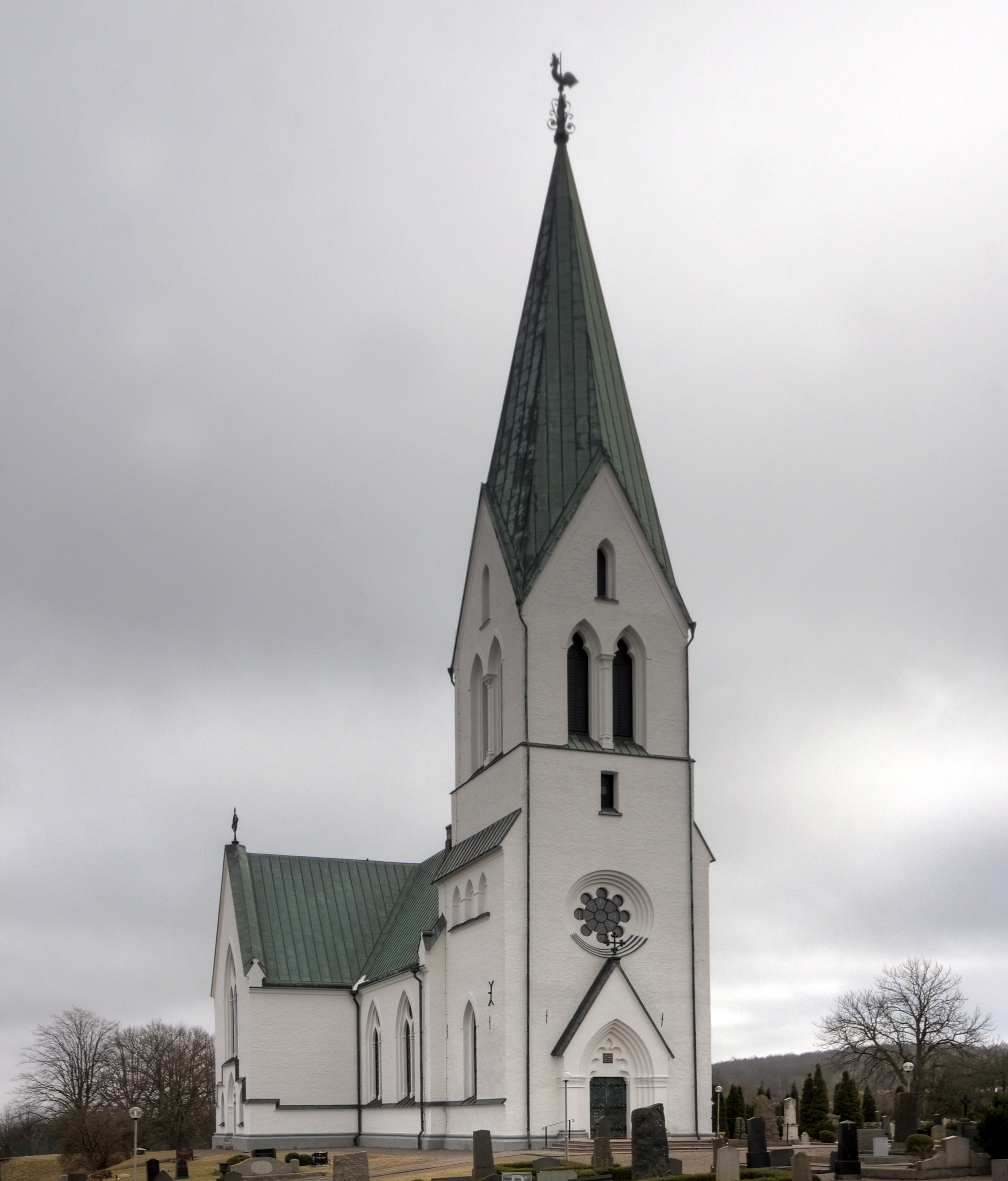 Björnekulla kyrka (Church of Björnekulla) is a church of Björnekulla-Västra Broby Parish in Åstorp, Sweden.